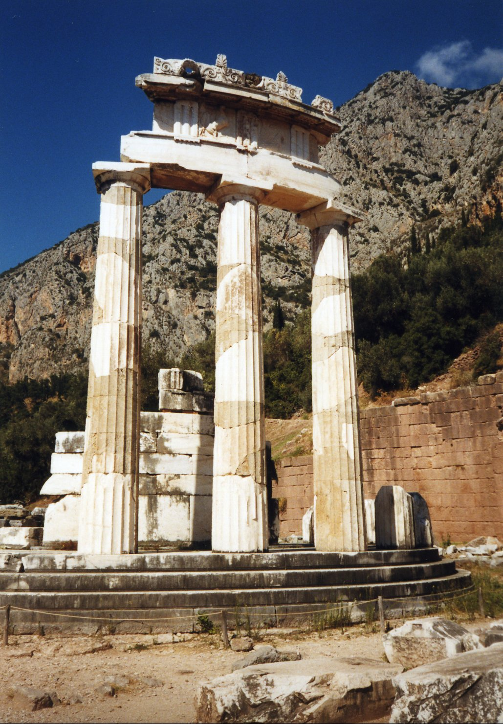 Delphi, Greece: Tholos